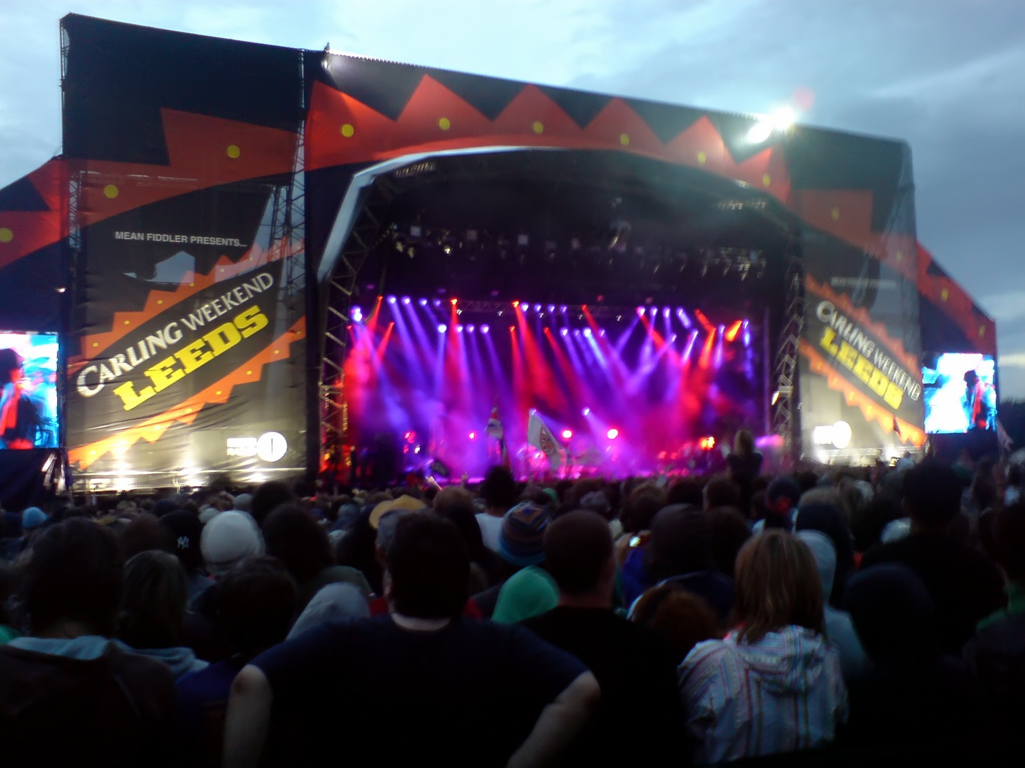 Commons uploader wrote: A photo of Arctic Monkeys playing on the Main Stage at Leeds Festival in 2006. Flickr uploader wrote: Arctic Monkeys played a great live set. The album is brilliant but I didn't think they would pull off the festival thing as well as they did.